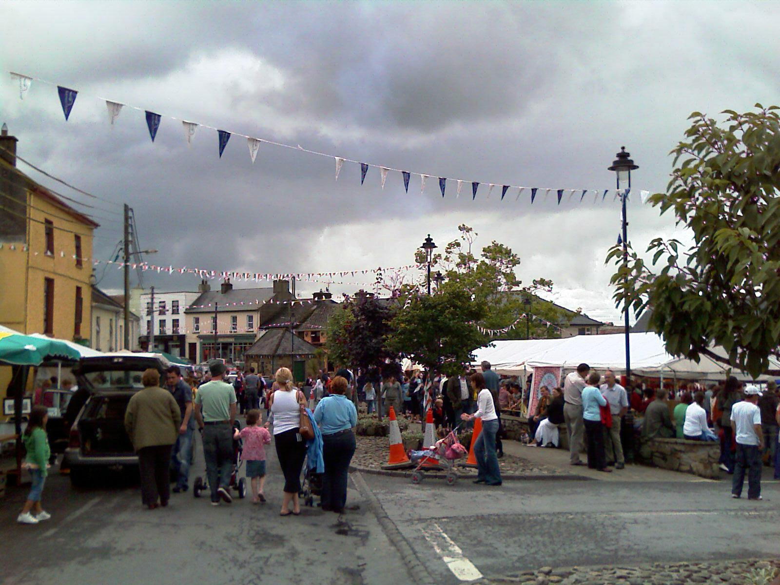 Author: Mark Hogan Description: A photo from the Scarriff harbour festival 2007. The area shown in the photo is generally considered to be the centre of the town because there is a car park (underneath the marquee on the right), it is a large junction and it is effectly the central business district of the town. The market house, considered to be the symbol of the town, can be seen in the background.